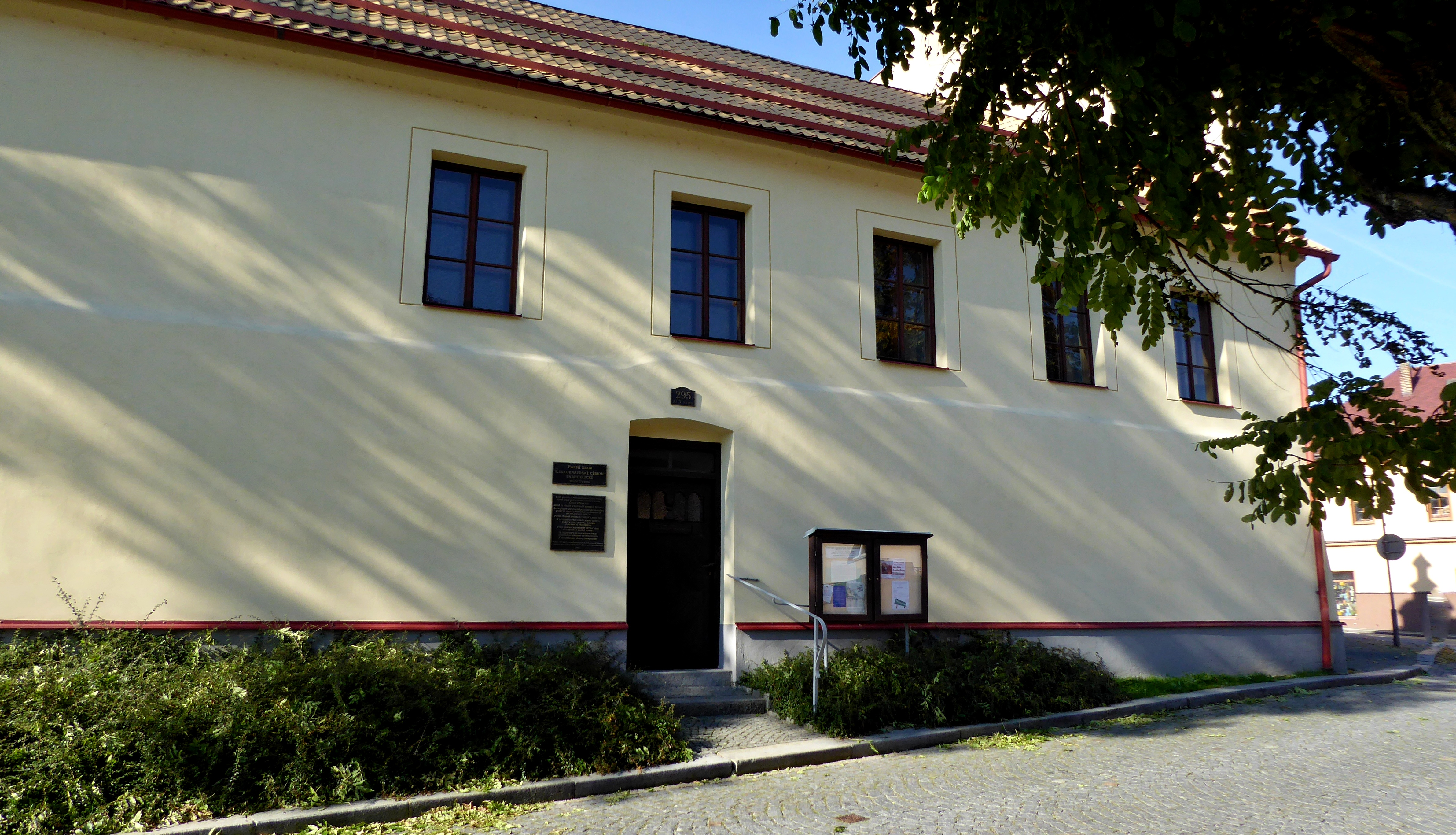 "Hlinecká" fortress, the present form, the oldest preserved building on the territory of town Hlinsko. Originally a Gothic fortress at the trade route connecting Bohemia and Moravia. Later, it became the seat of "hlineckého" property. From 1413 is the first written mention of the fortress, in connection with "rychmburským" manor. During the reign of King Ferdinand I. in 1547 the building became a royal customs house. She was rebuilt in the Renaissance style at the end of the 16th century. In 1904 it was changed in connection with the building of the "U tvrze" house. In the years 1972-1973 the building was rebuilt into a prayer house of the Evangelical Church of the Czech Brethren. On the building from 2011 a commemorative plaque on the history of the building. Town Hlinsko, street "U tvrze". Photo-location: Czechia, Pardubice Region, Hlinsko, "Kameničská" Highlands".